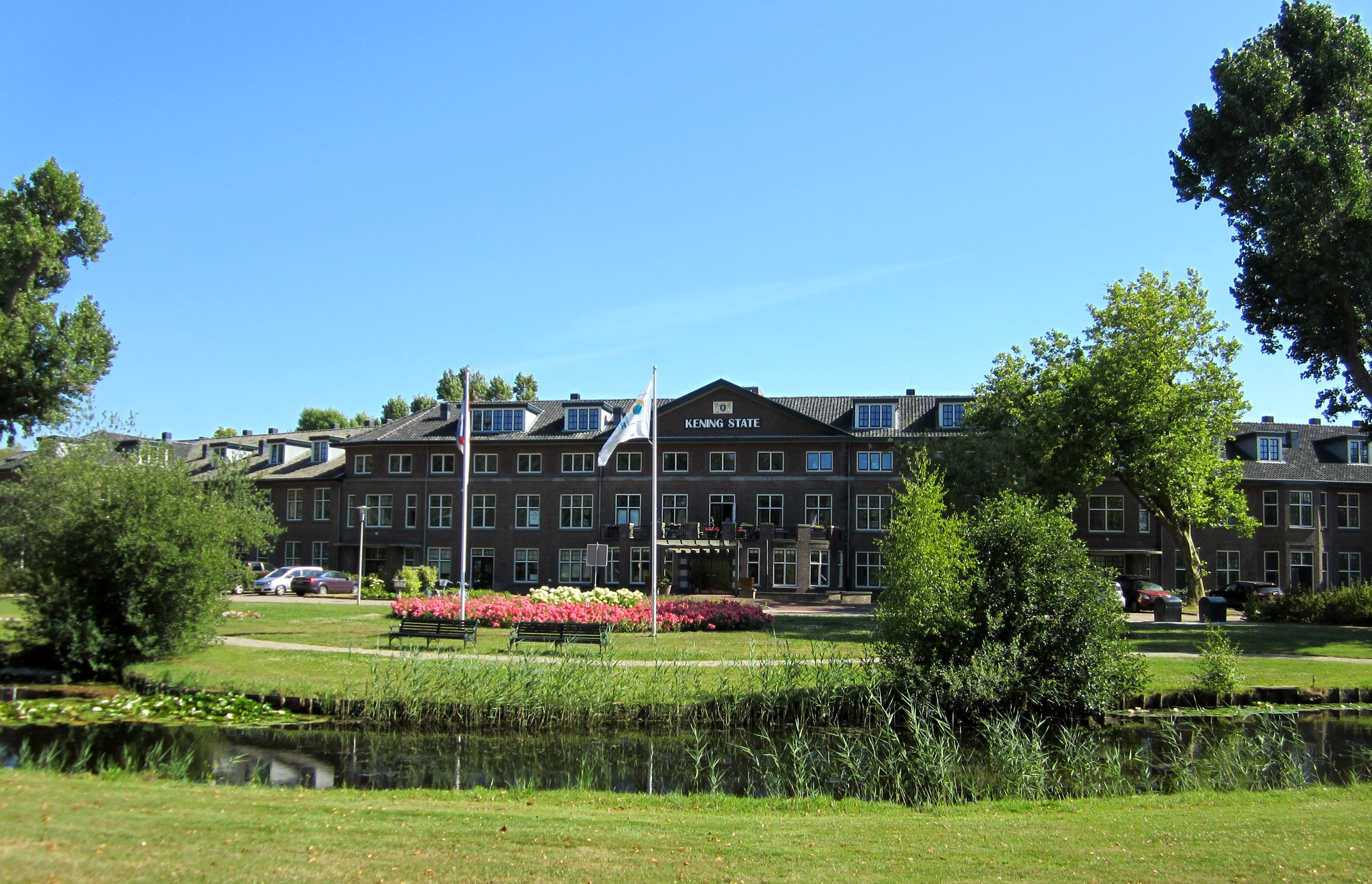 Kening State, formerly known as Groot-Lankum/Grut-Lankum, a former psychiatric hospital and current rijksmonument in Franeker/Frjentsjer, Friesland, the Netherlands.